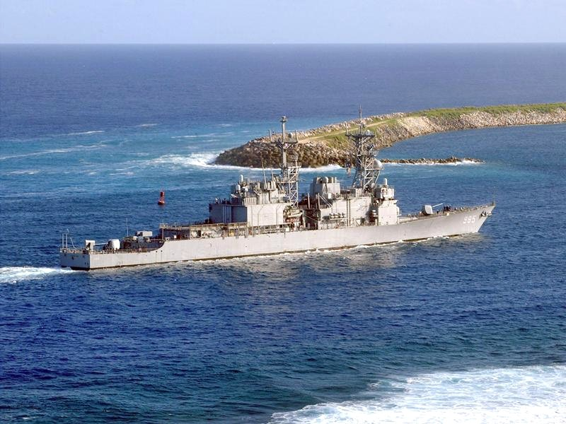 The Spruance-class destroyer USS Cushing (DD 985) enters Apra Harbor during a port visit to Guam.